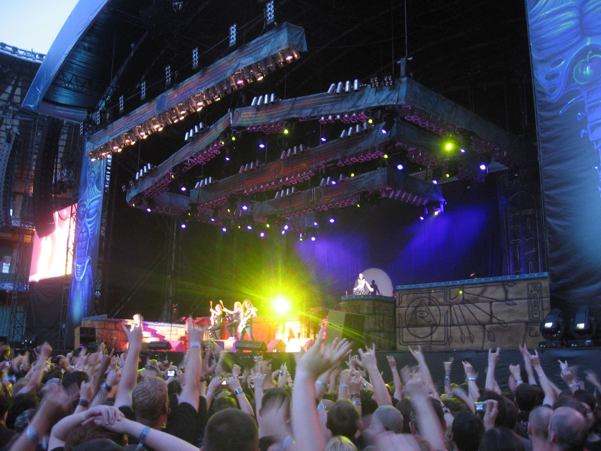 Iron Maiden at Twickenham Stadium, London in July 2008